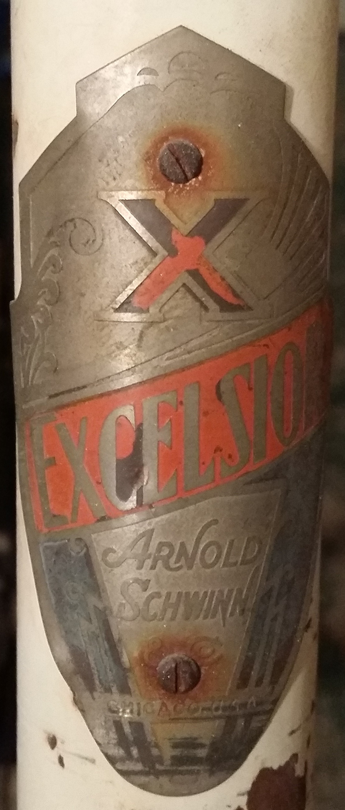 Schwinn Excelsior head badge